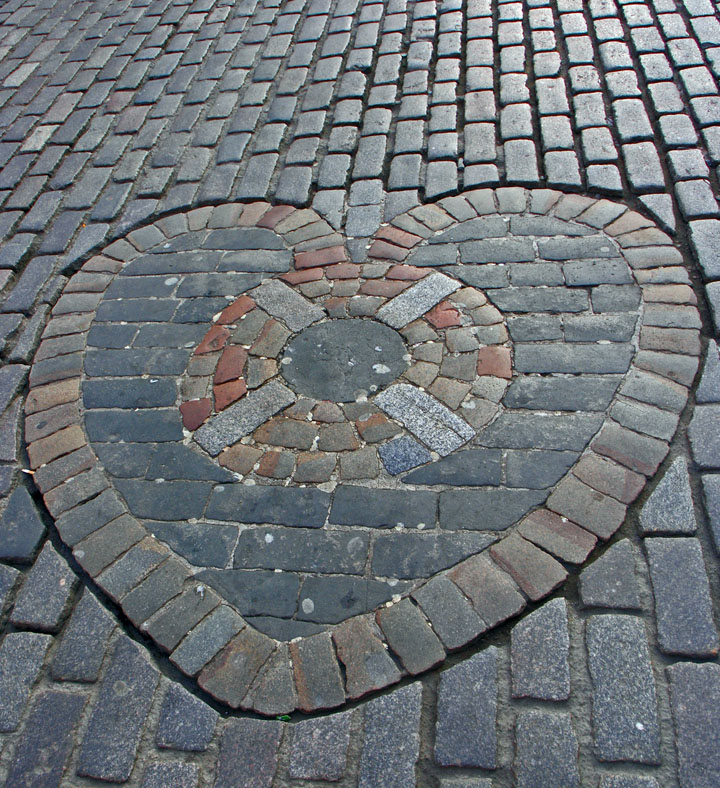 This is an image I took myself using an Olympus C8080W digital camera. It shows the Heart of Midlothian on the Royal Mile in Edinburgh.